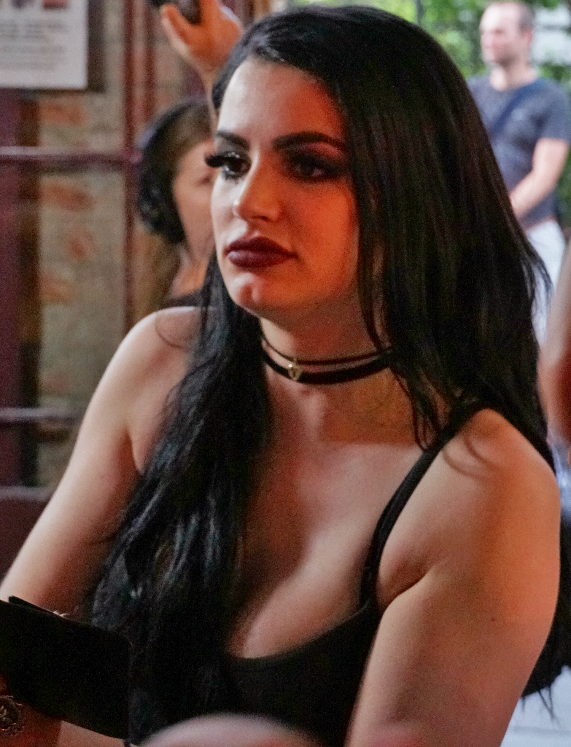 Paige on April 3, 2018